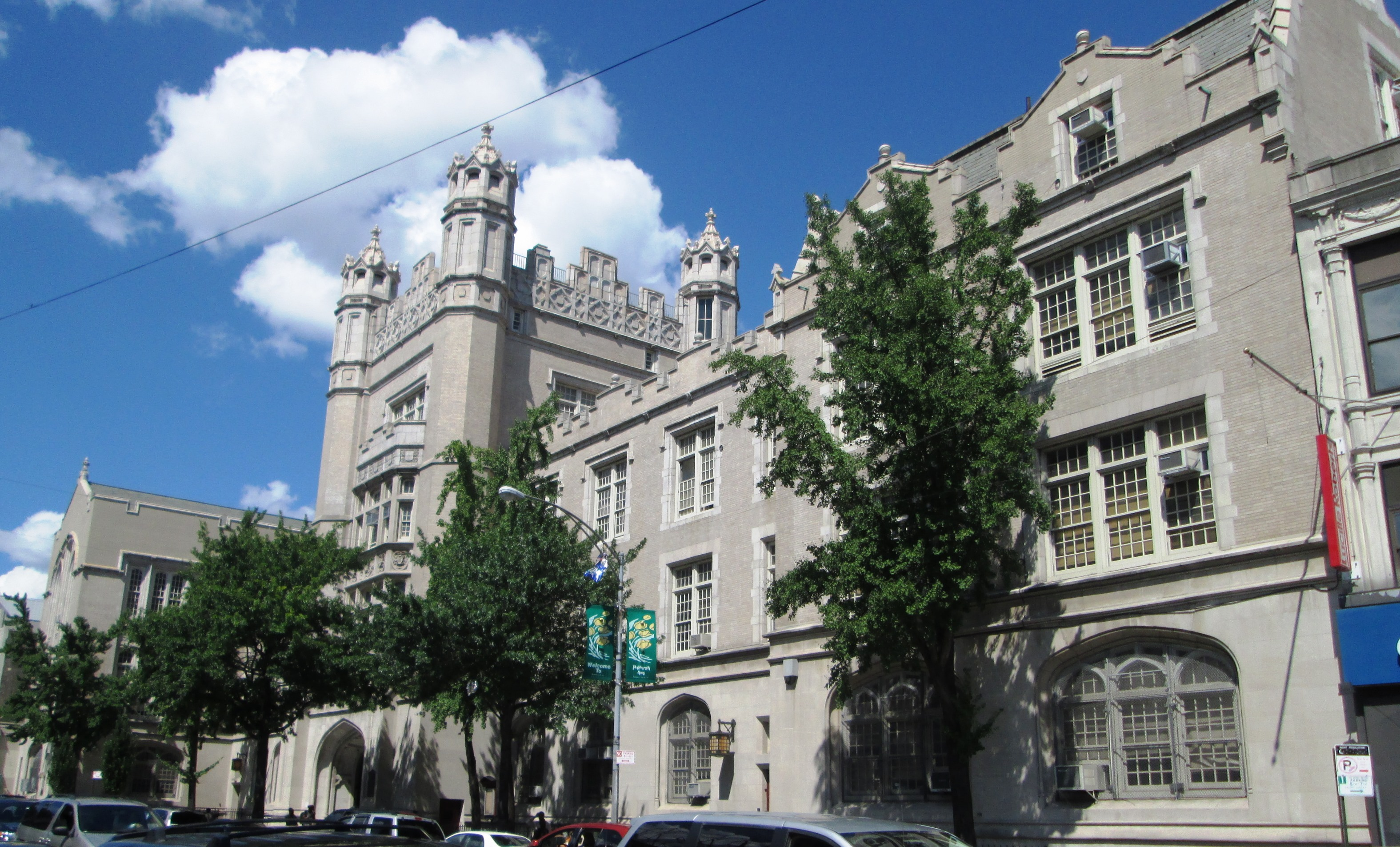 Erasmus Hall High School was a four-year public high school located at 899-925 Flatbush Avenue between Church and Snyder Avenues in the Flatbush neighborhood of the New York City borough of Brooklyn. It was founded in 1786 as Erasmus Hall Academy, a private institution of higher learning named for the scholar Desiderius Erasmus, a Dutch Renaissance humanist and Catholic Christian theologian. The clapboard-sided, Georgian-Federal-style building, constructed in 1787 on land donated by the Flatbush Dutch Reformed Church, was donated to the public school system in 1896, and still stands in the courtyard of the current school, serving as a museum exhibiting the school’s history. The current school buildings in the Collegiate Gothic style were built in 1905-06 and 1909-11, designed by C.B.J. Snyder; and 1924-25 and 1939-40, designed by William Gompert and Eric Kebbon. Due to poor academic scores, the city closed the high school in 1994, turning the building into Erasmus Hall Educational Campus and using it as the location for five separate small schools.